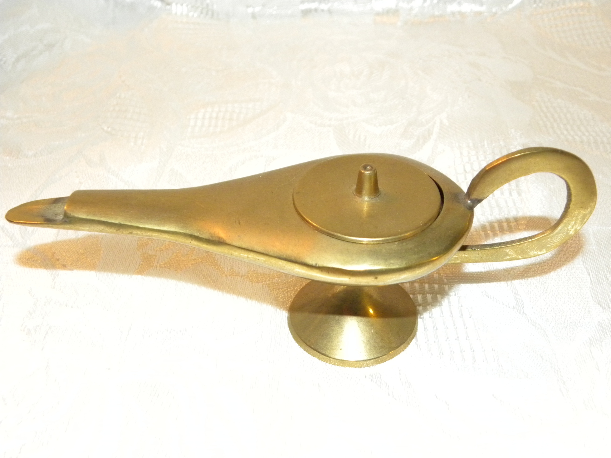 Genie lamp, oil lamp, Aladdin's lamp, lamp of gin, jin, jinn, Alladin, Aladin